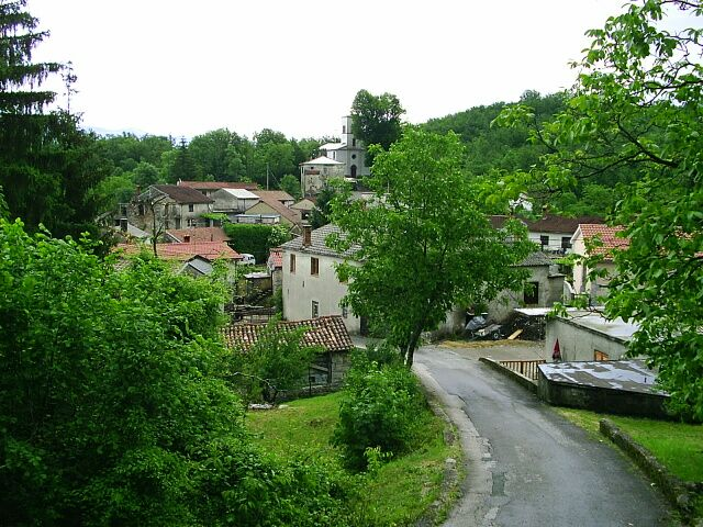 Nature and countryside of the Istria peninsula in Croatia